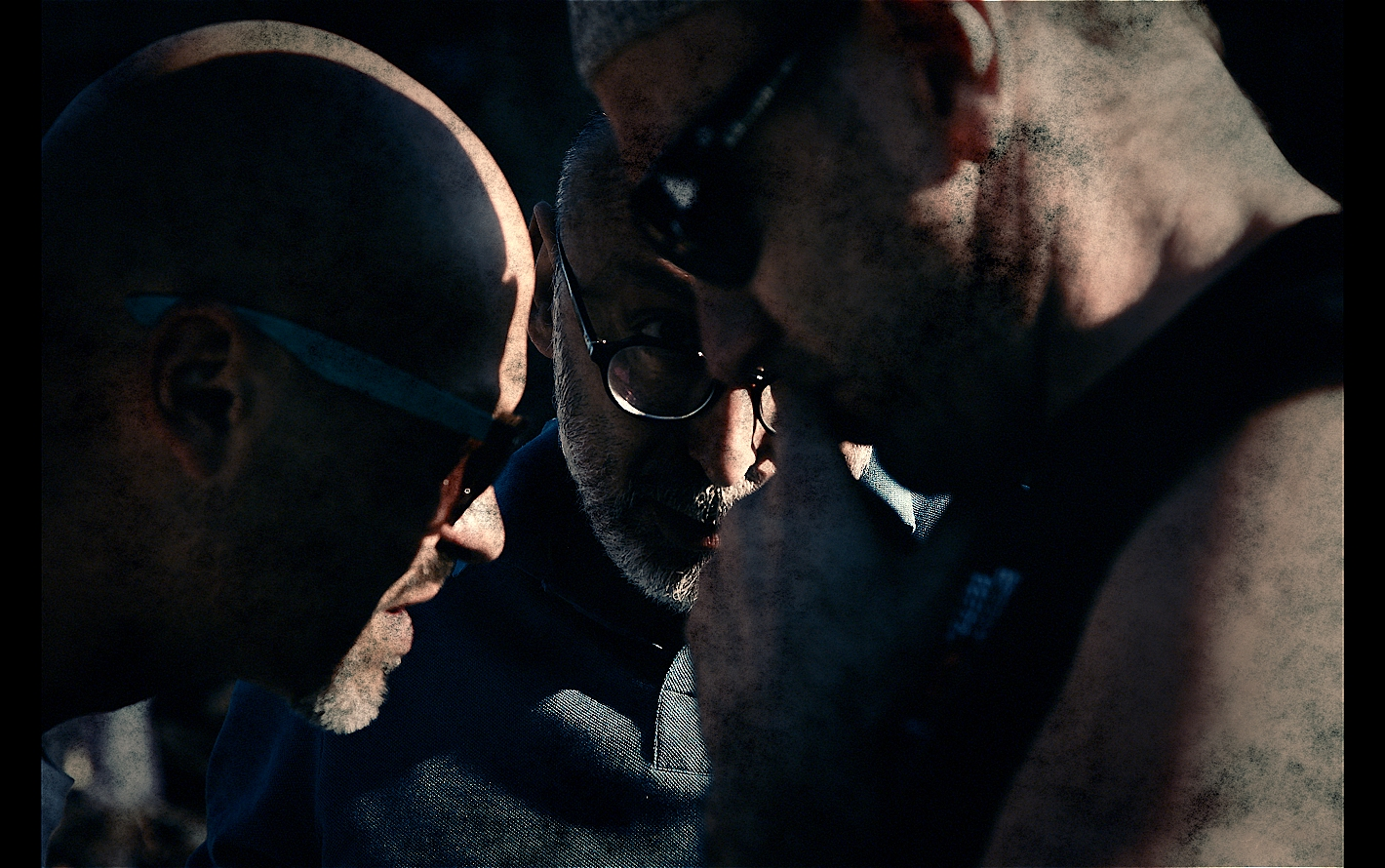 Fedor Bondarchuk on filming of Stalingrad